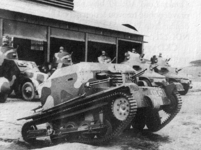 Czechoslovak Tankette Tč vz. 33 in military base Milovice.